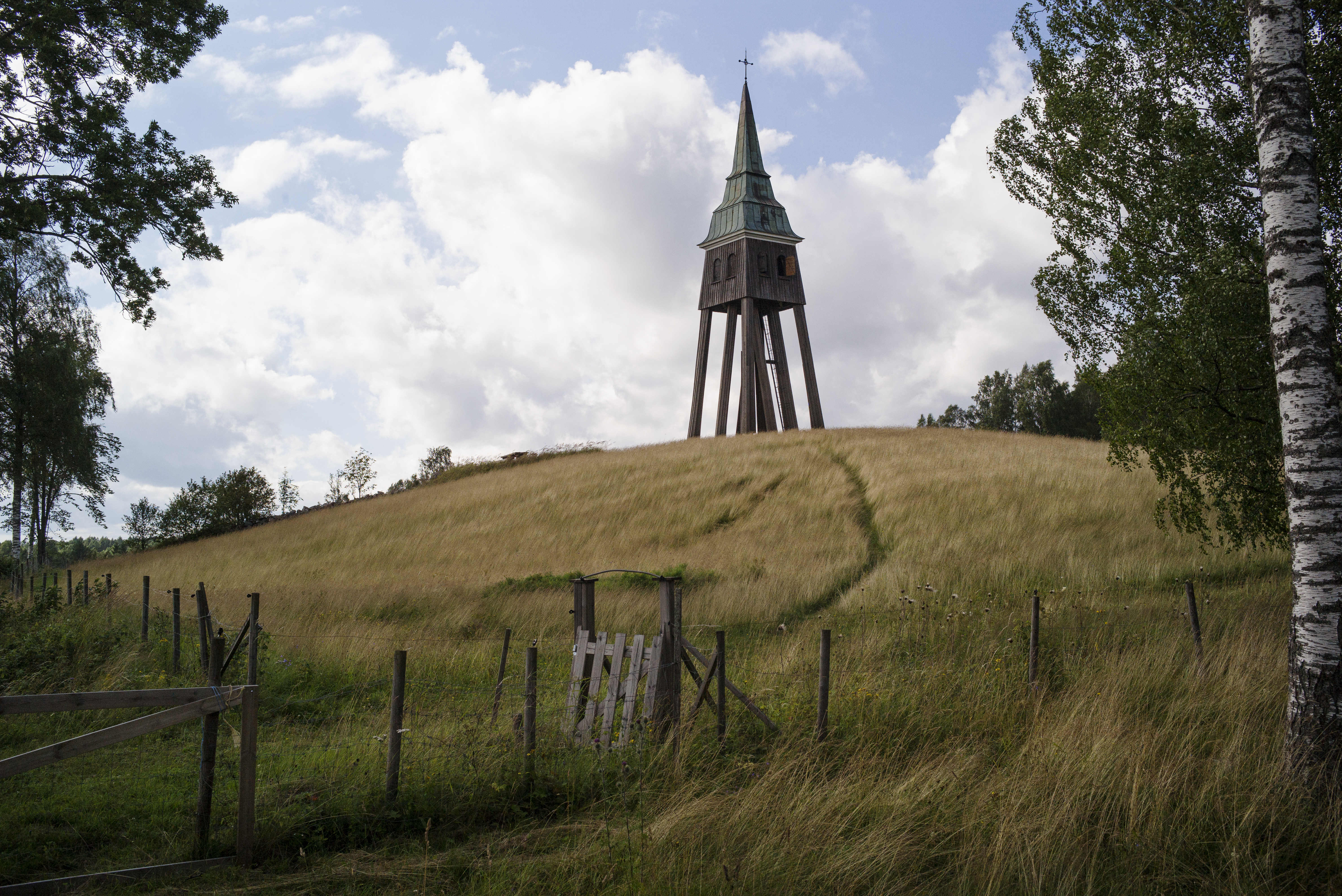 Klockstapl